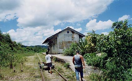 Churches in the district of Furquim, Minas Gerais, Brazil.